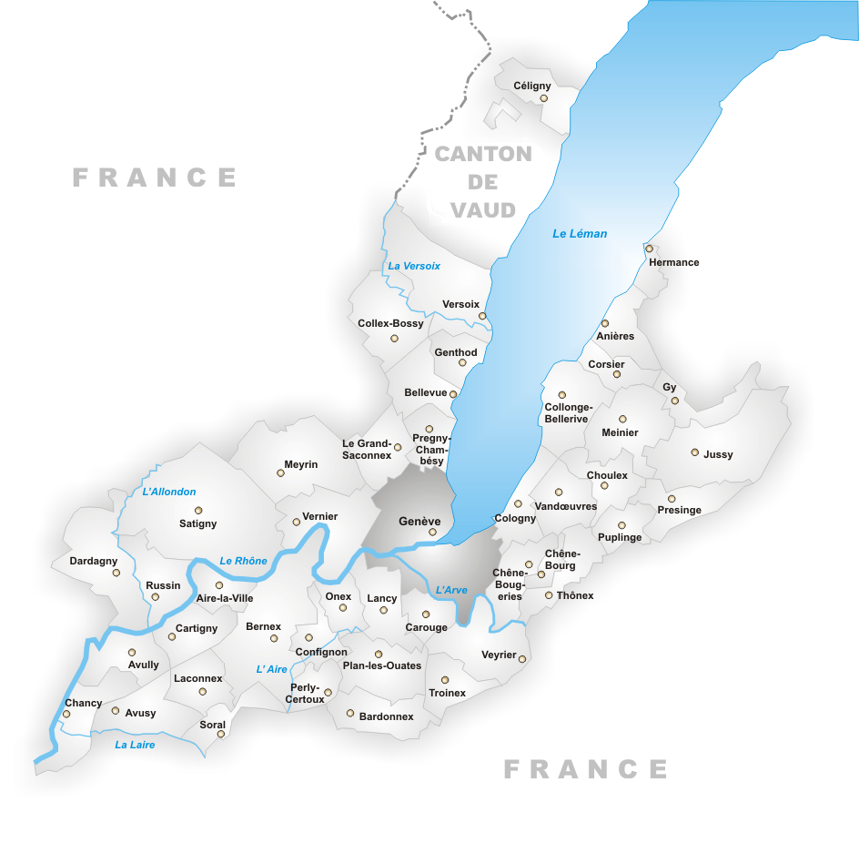 Copy of Image Carte_Commune_Genève.png, with a correct naming